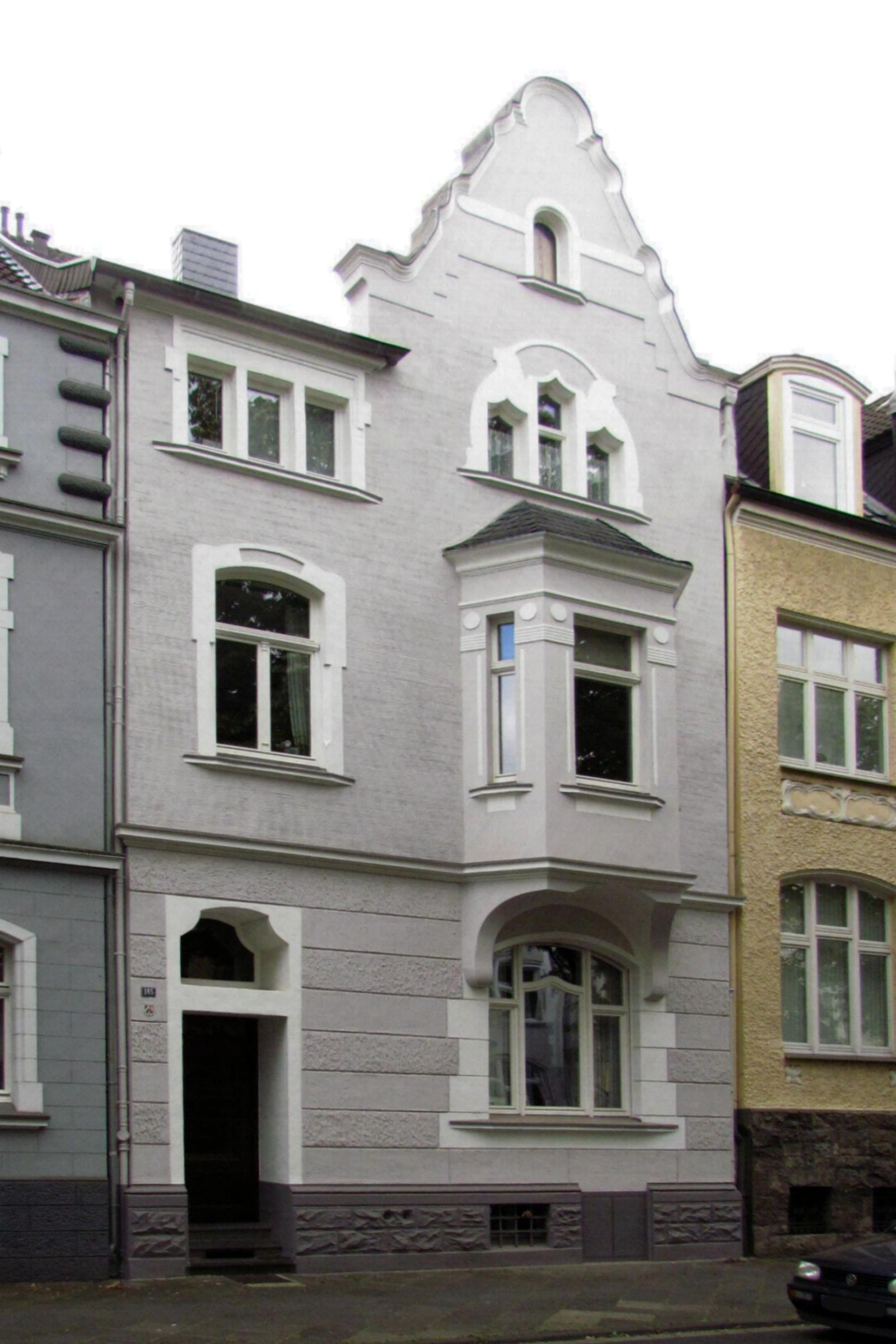 This is a photograph of an architectural monument. 098